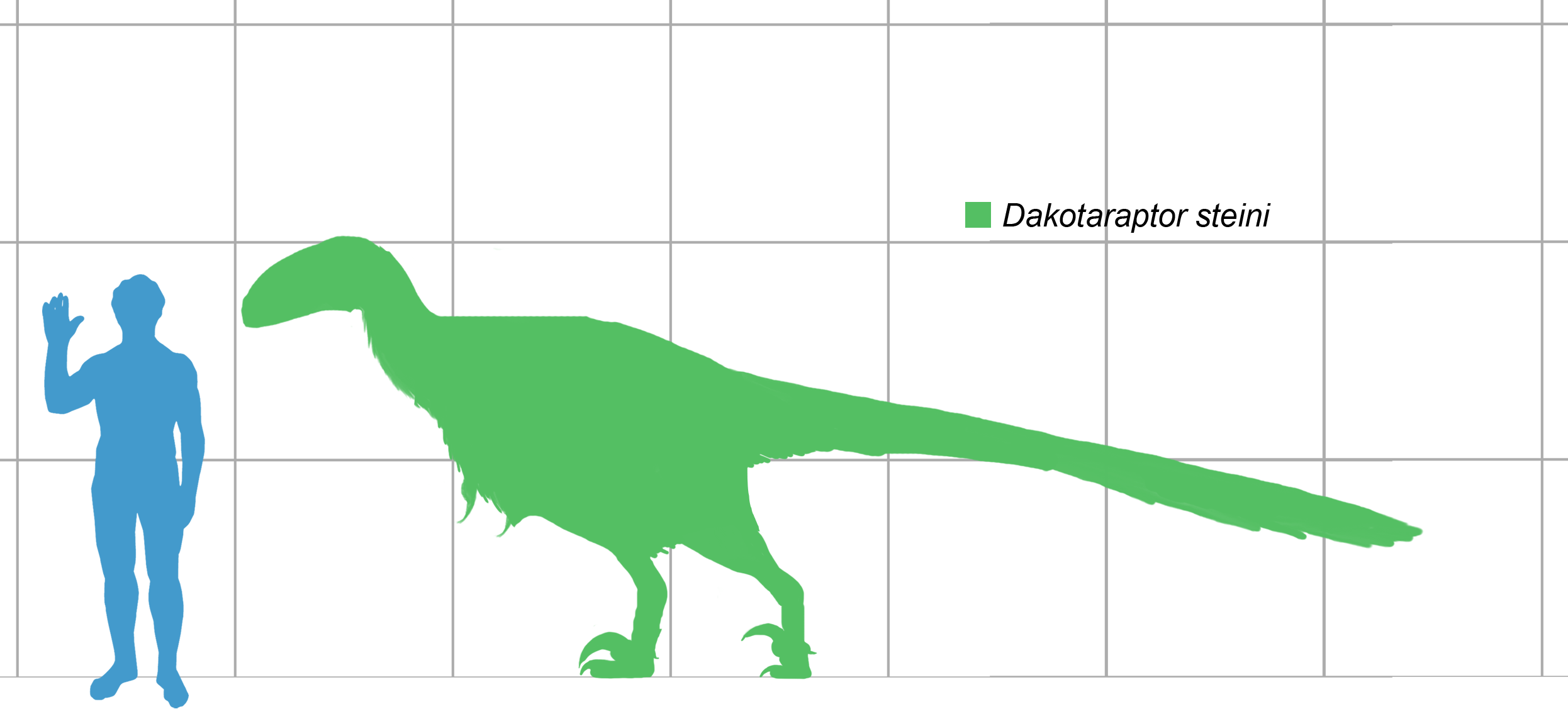 Size of Dakotaraptor steini (green) compared to a human.